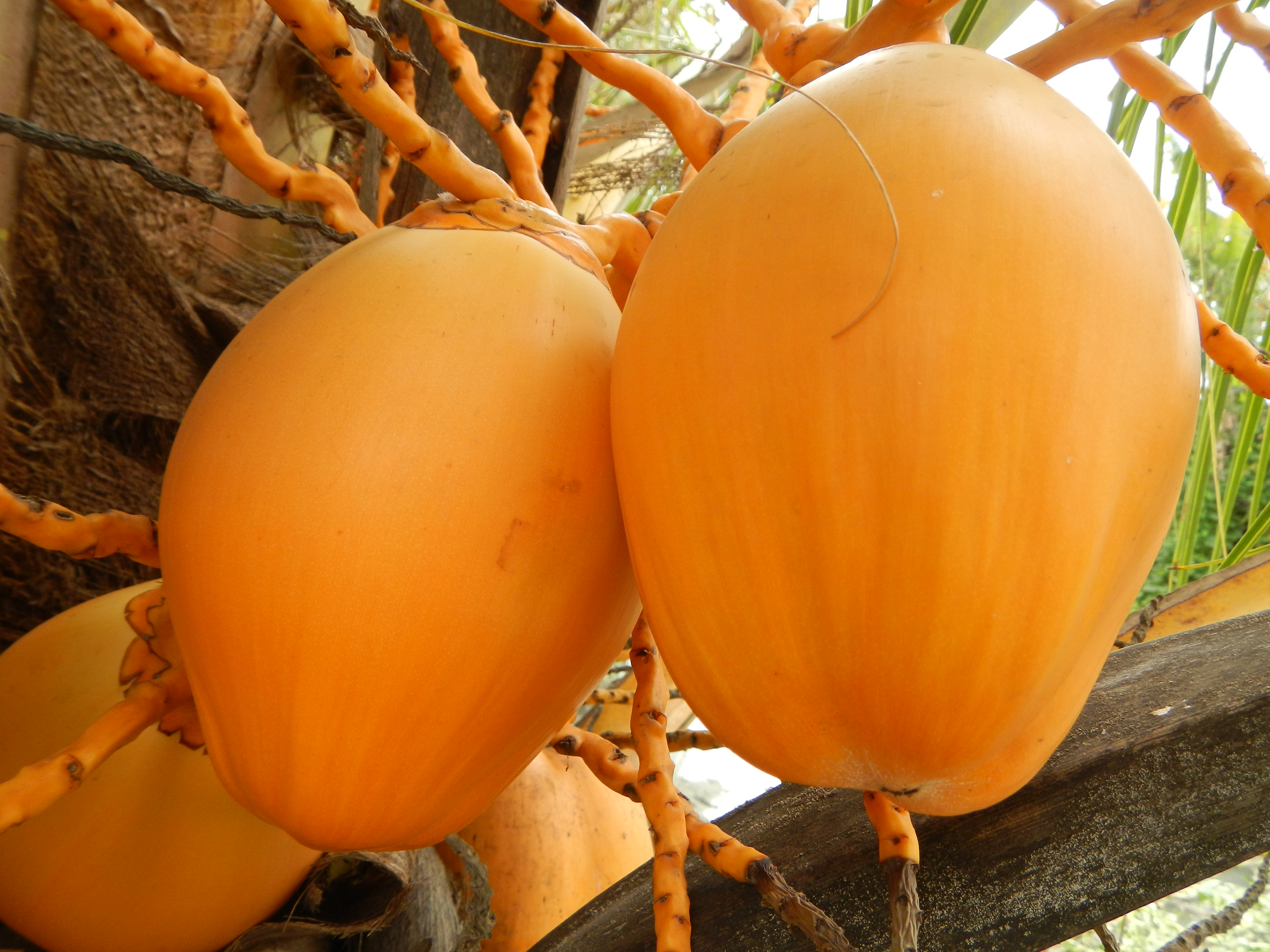 Coconut hybrid Cocos nucifera Dwarf Coconut tree this coconut species is about 15 feet tall, a dwarf compared to the common coconut trees found in the Philippines the meat and water are very sweet in front of the hall of Barangay Parcutela,Gapan, Nueva Ecija.